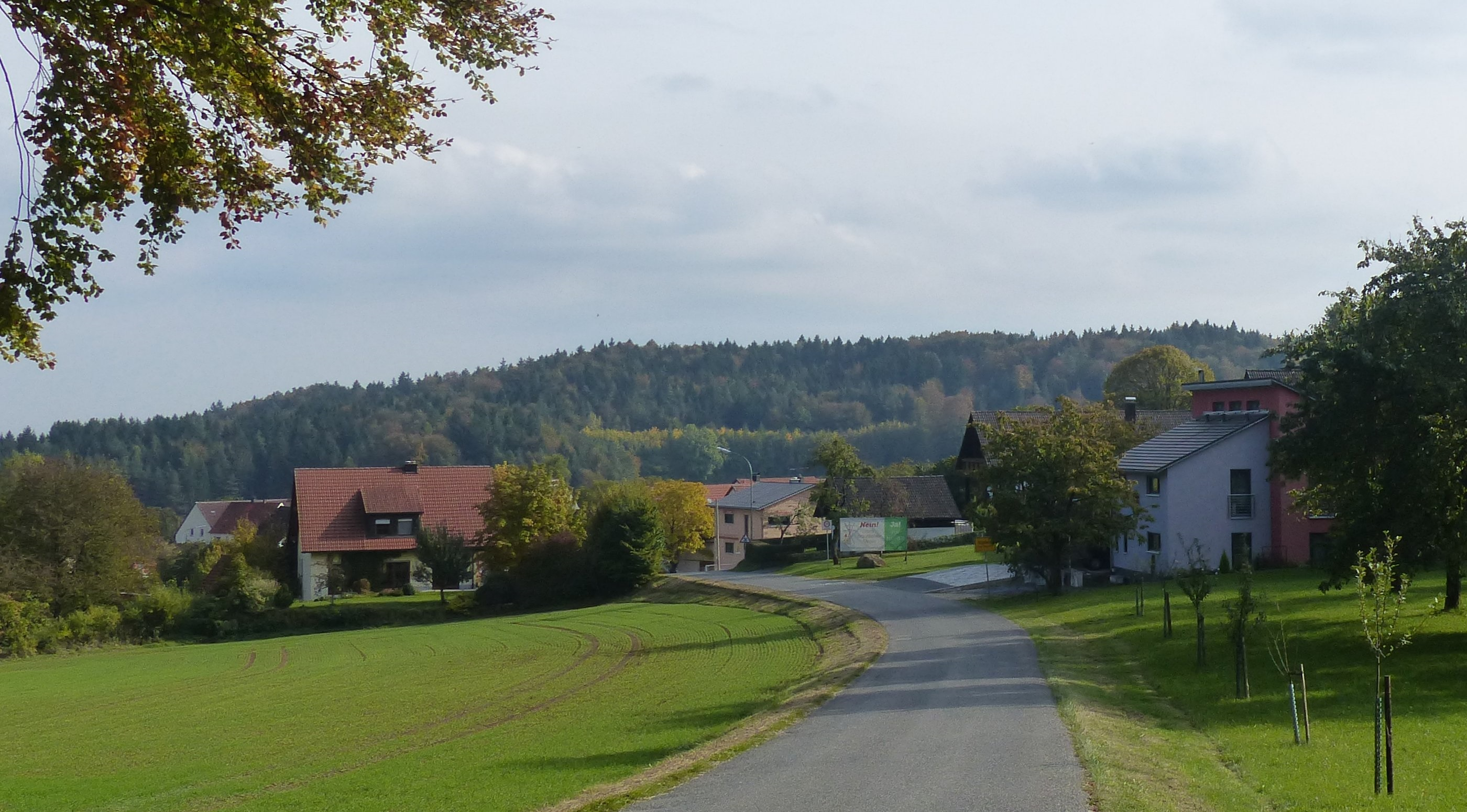 The village Illafeld, part of the town of Betzenstein